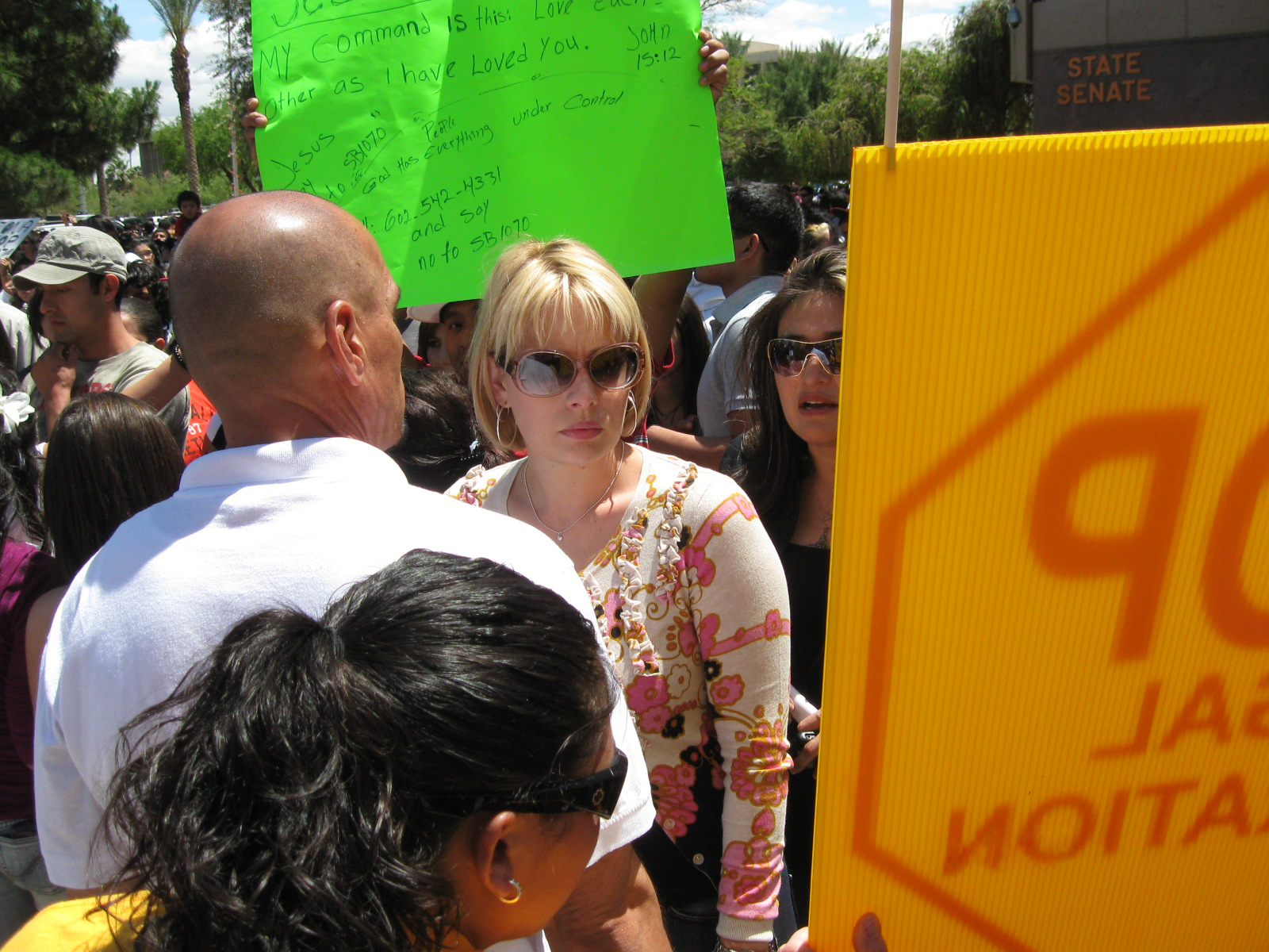 Arizona State Representative Kyrsten Sinema protesting against SB1070